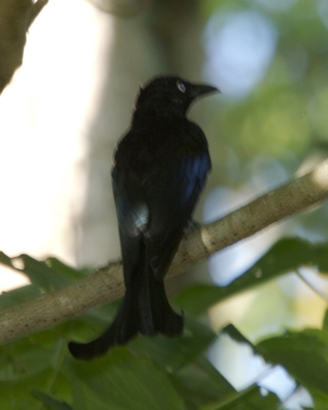 Spangled Drongo Dicrurus hottentottus leucops Tangkoko, Sulawesi, Indonesia 9th. July 2006